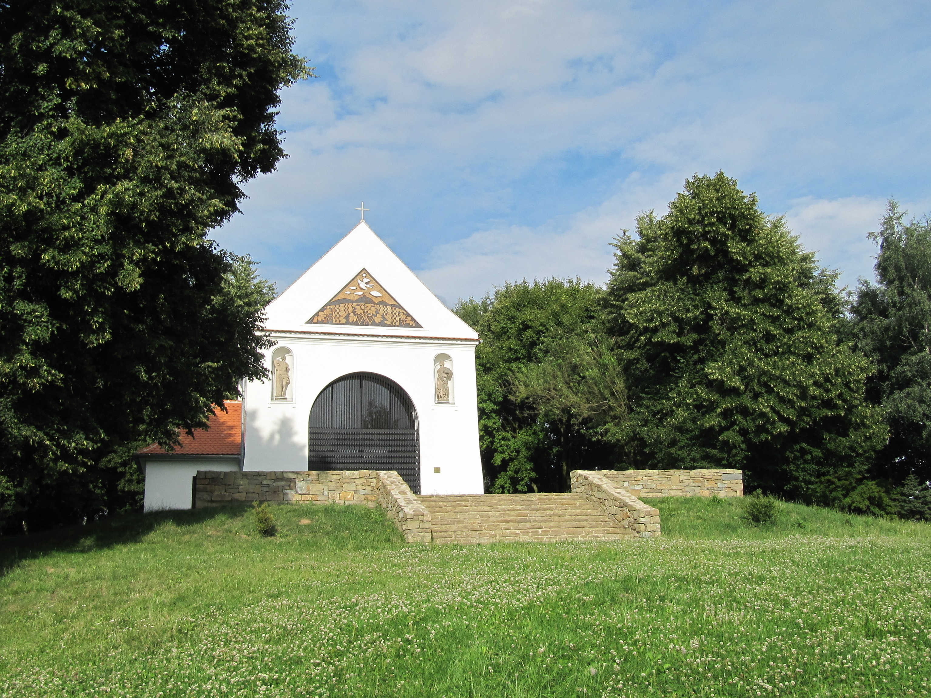 Uherské Hradiště, Czech Republic, part Jarošov. Chapel of Saint Roch.